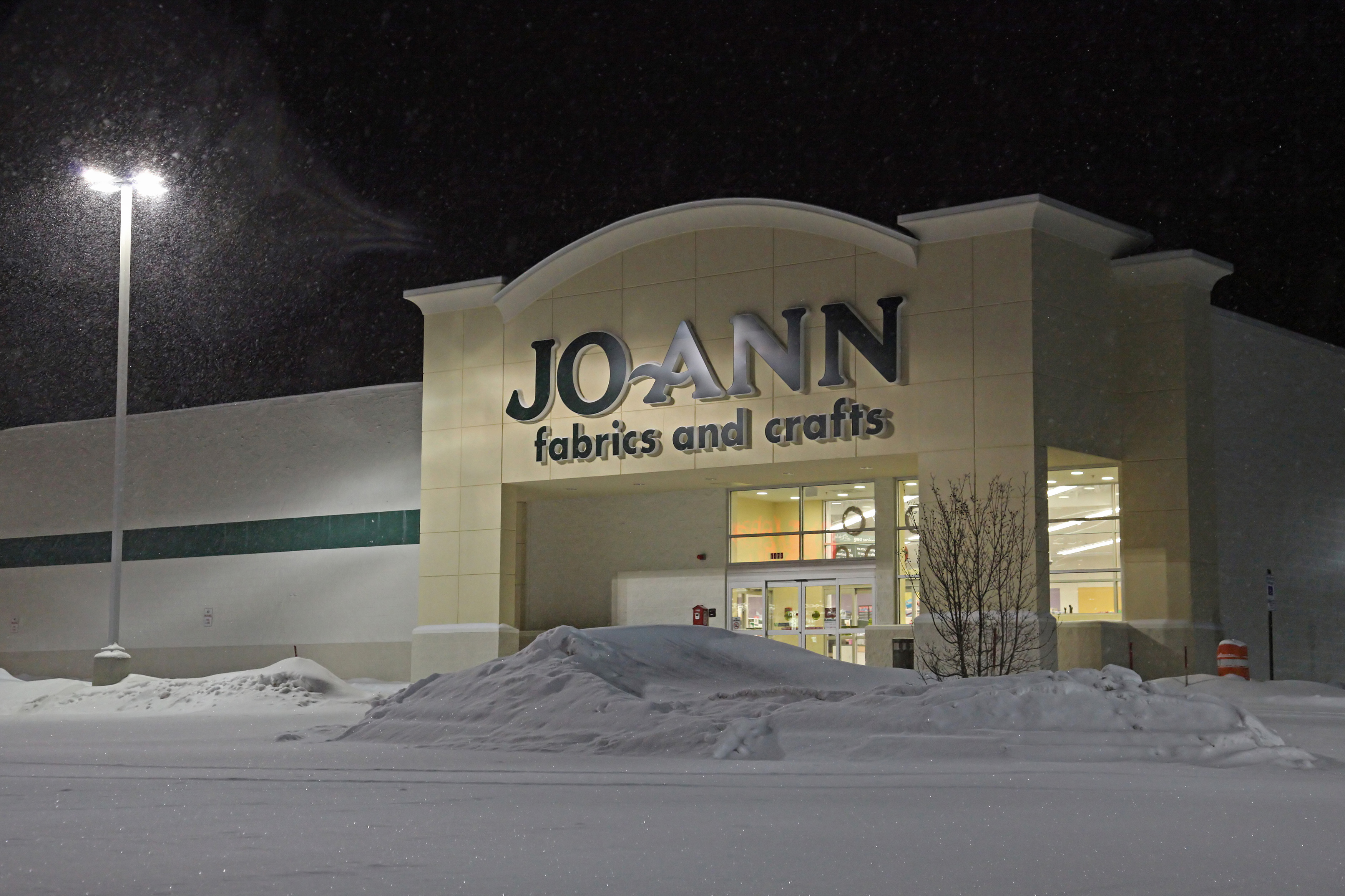 JoAnns Fabrics and Crafts store, Saugus, Massachusetts, USA